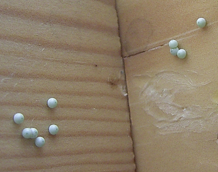 Eggs of Pterostoma palpina; determined with the female imago